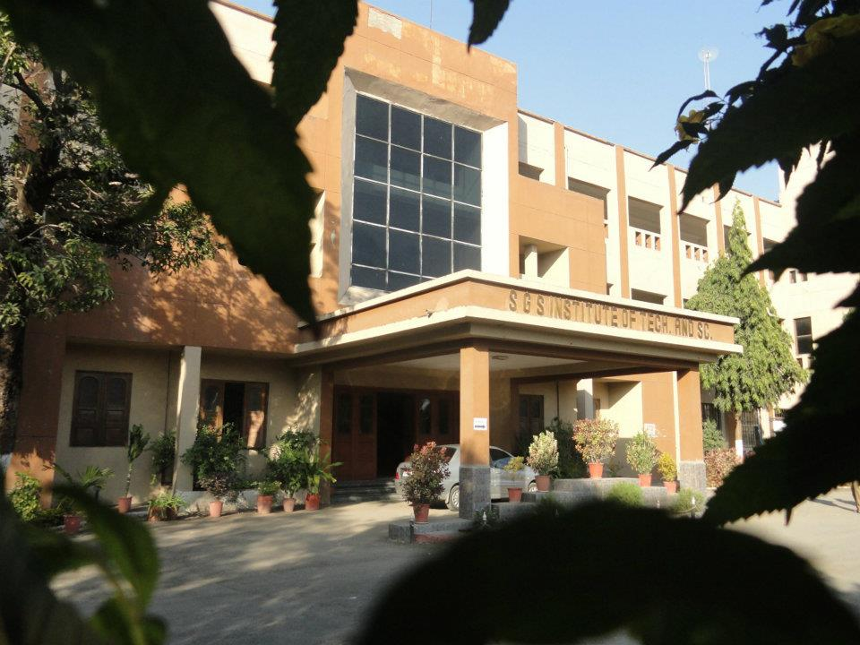 academic block seen from main gate